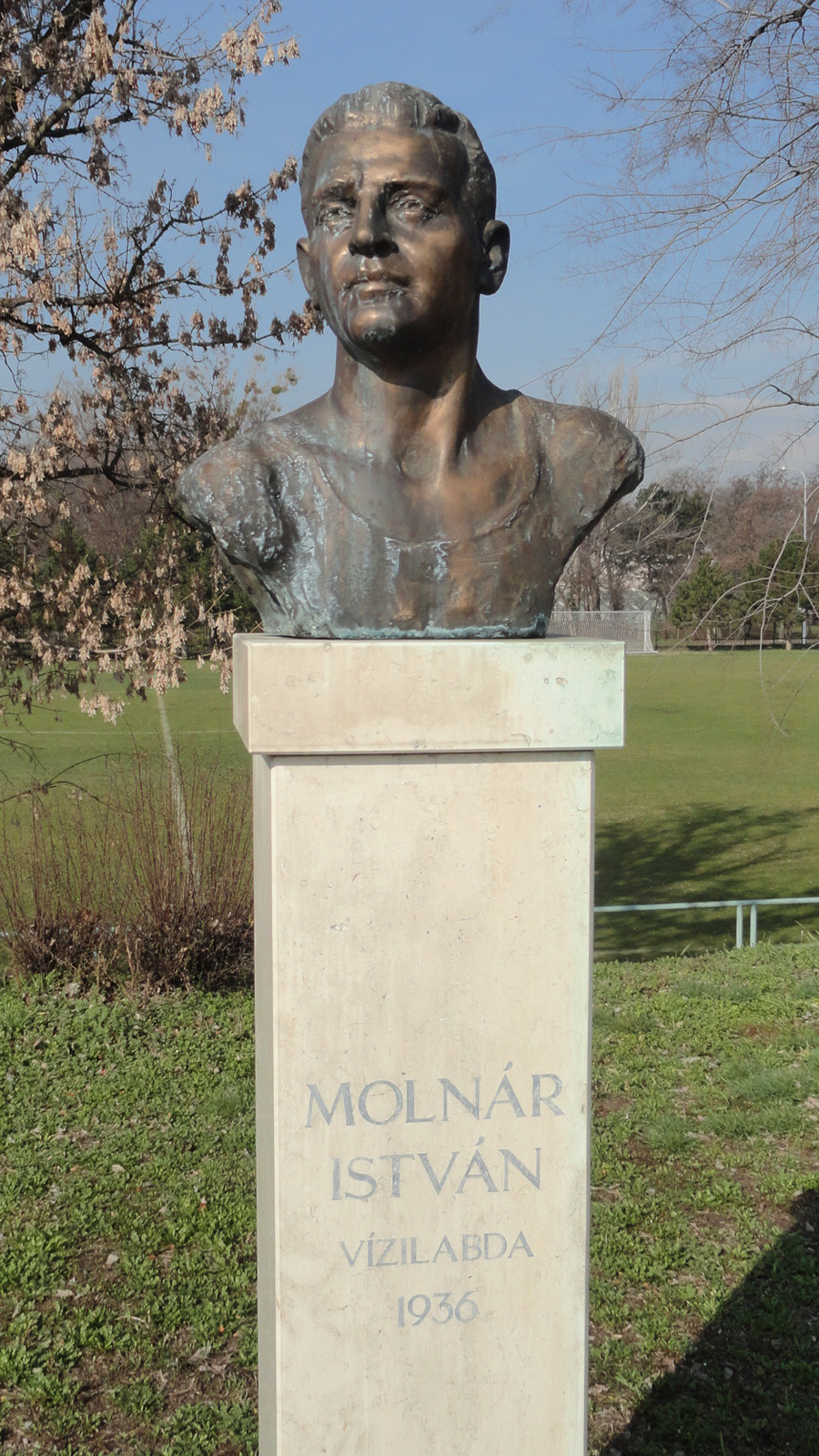 István Molnár, hungarian water polo player. 1936 Summer Olympics - Gold Medal Winner